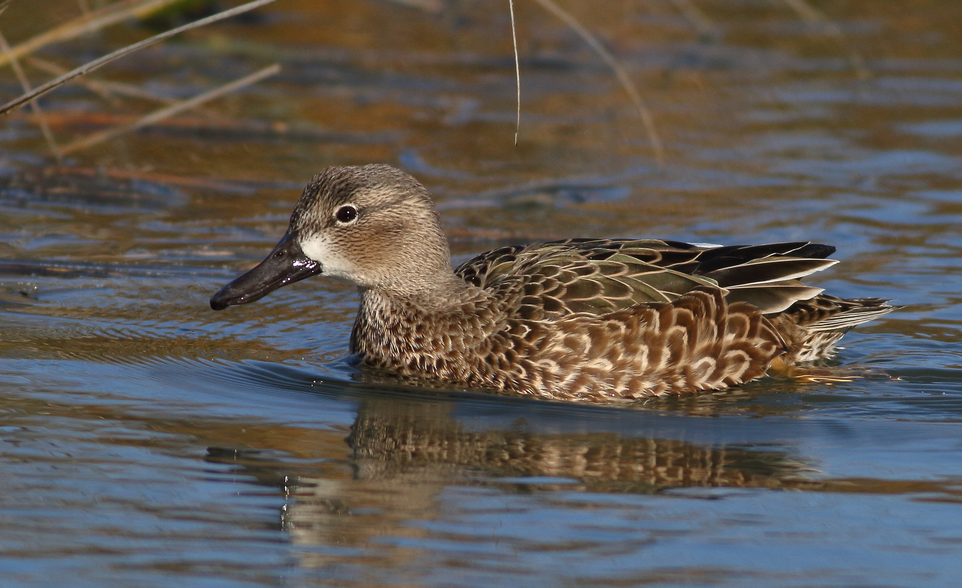 Blue-winged Teal female in Oakland, California